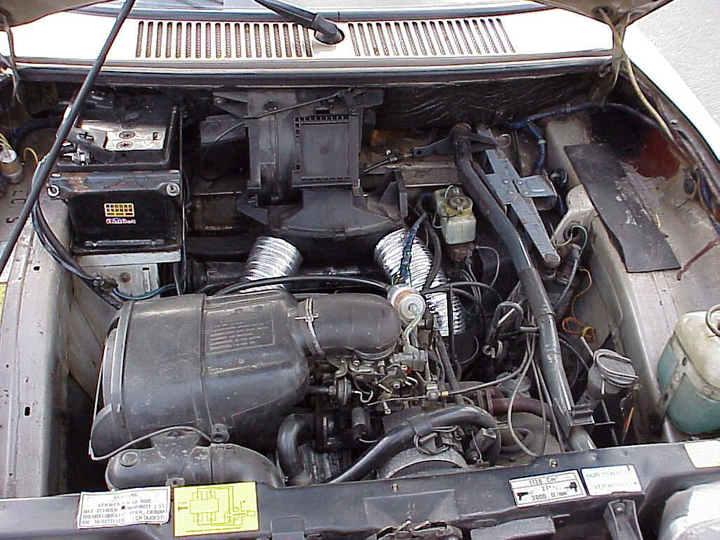 Oltcit Club - engine view